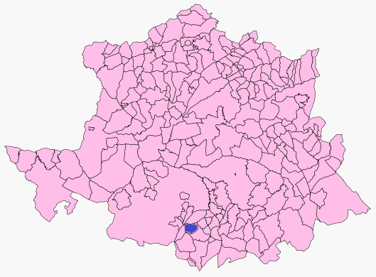 Albalá